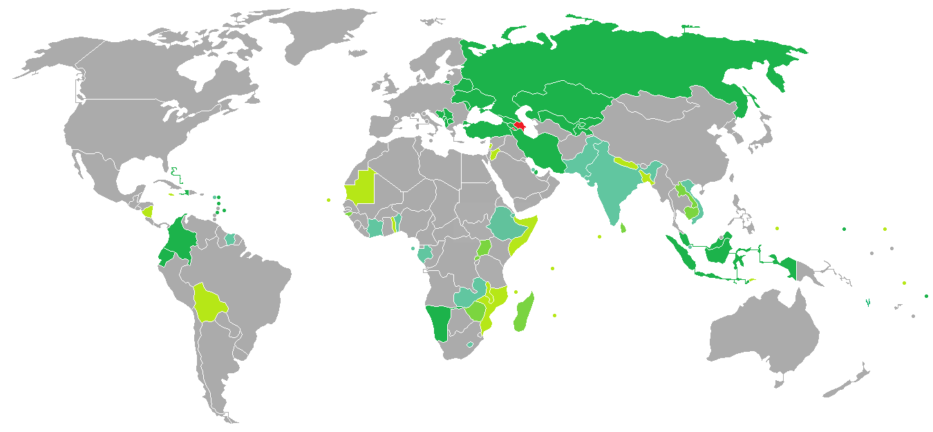 Visa requirements for Azerbaijani citizens